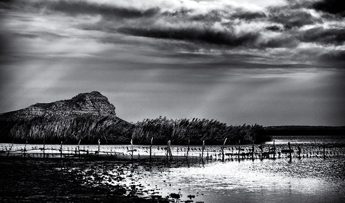 Although not formally declared as a PHS at time of writing, Council of Heritage Western Cape has agreed to the declaration of portions 18-36 Verlorenvlei 8 as a Provincial Heritage Site. Formal gazetting is expected soon. The Verlorenvlei settlement is regarded as a unique remnant of a particular way of life with a distinctive architectural style which has developed from the first permanent buildings which were erected in the late 18th Century.The settlement has architectural, archaeological, historic and ecological significance and is a declared RAMSAR site. Overall the social-cultural significance of the settlement makes it a priceless piece of Africana. This media shows a South African Protected Site with SAHRA file reference NEW.